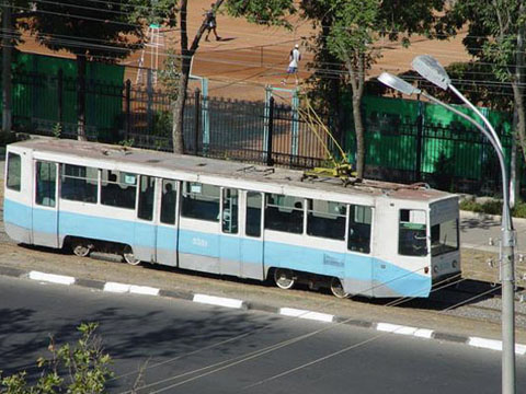 KTM-8 № 3521 in Tashkent, Lisunov street